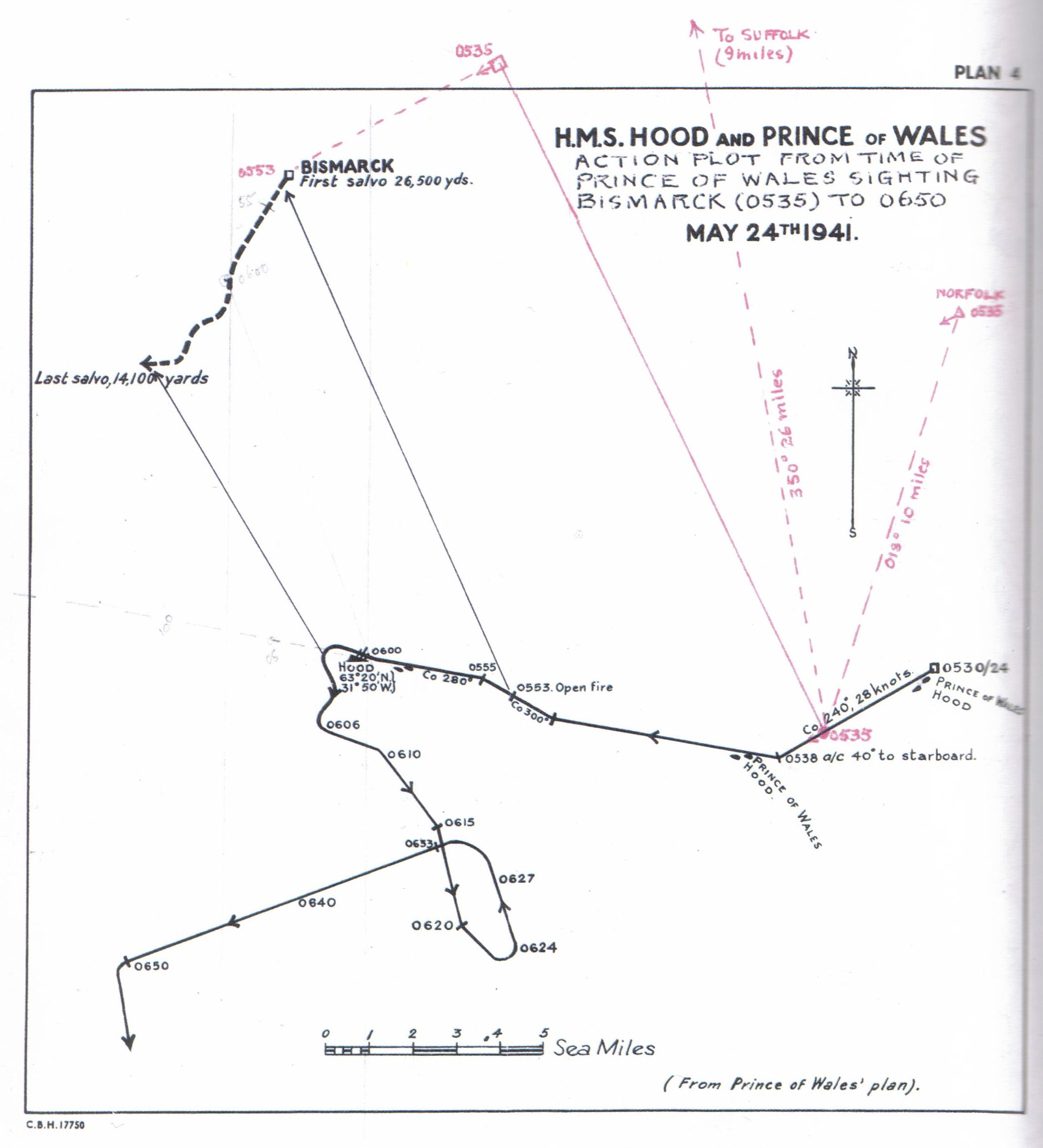 Track chart of HMS Prince of Wales at the Battle of the Denmark Strait, 24 May 1941